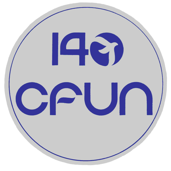 The CFUN Sticker, circa 1970s